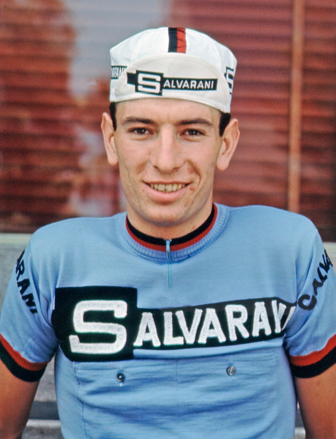 The Italian cyclist Felice Gimondi posing at the start of a stage of the Giro d'Italia. Italy, May 1966